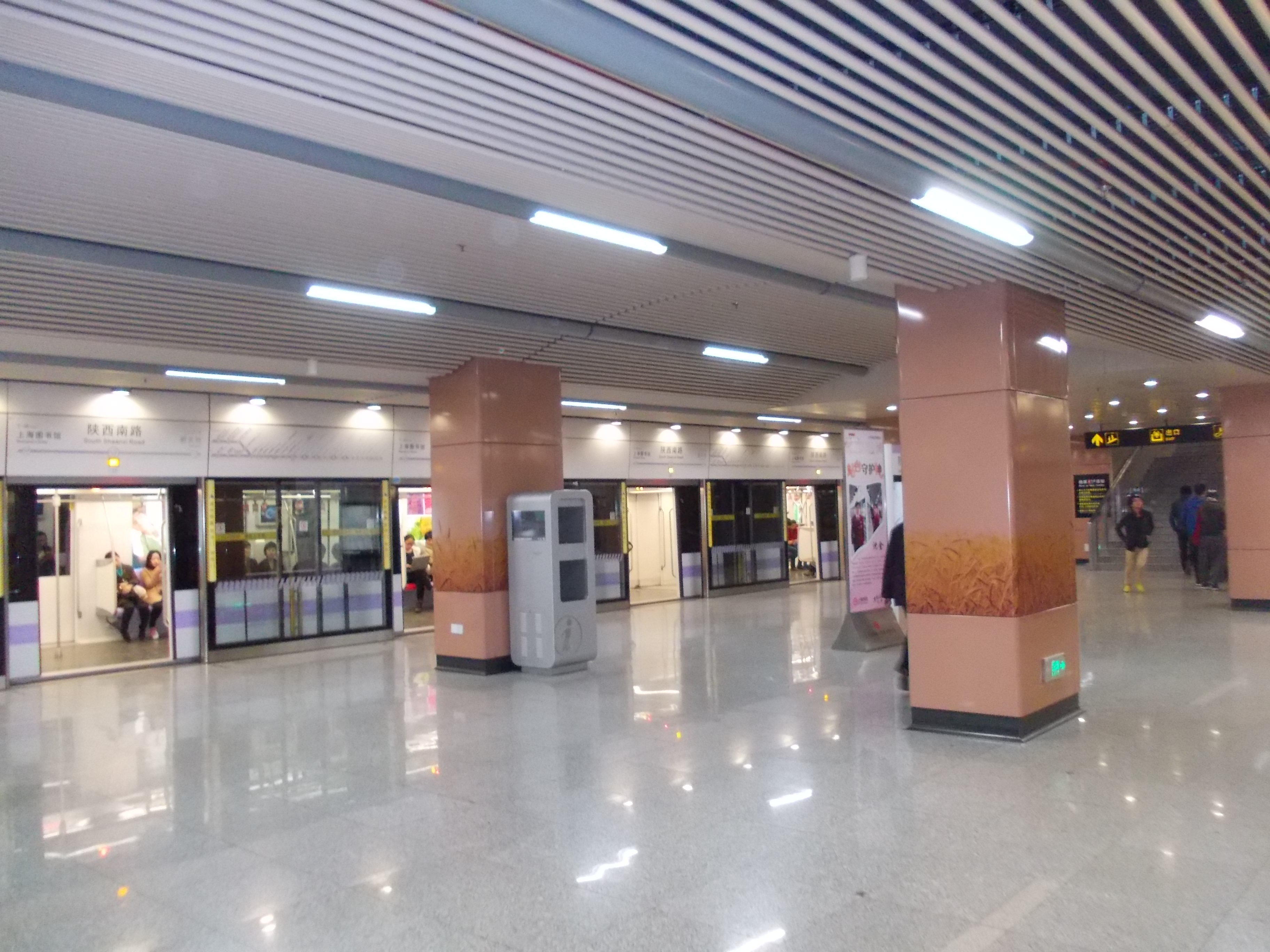 Shanghai Metro - Line 10 - South Shaanxi Road